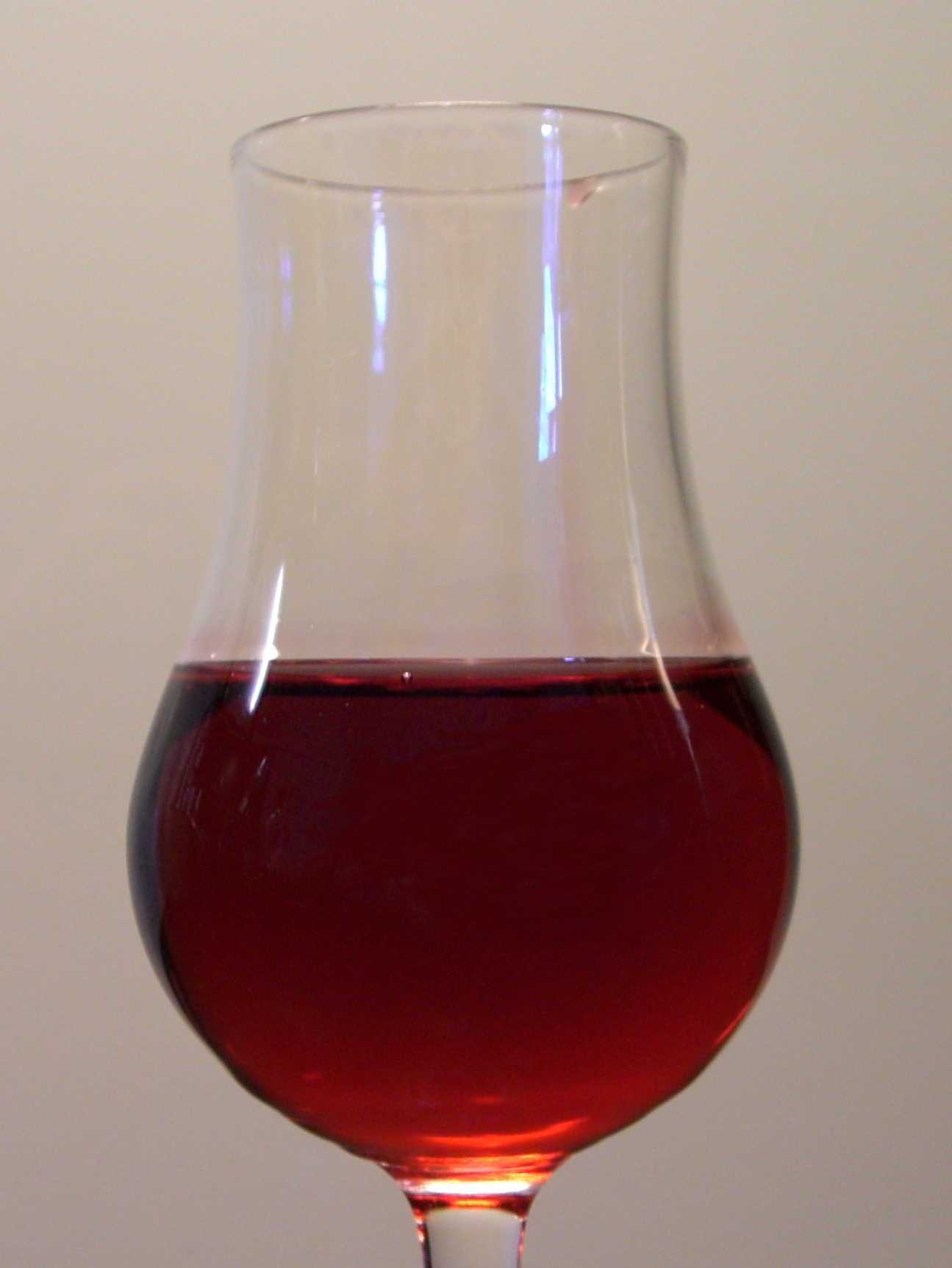 a glass of Grenadine